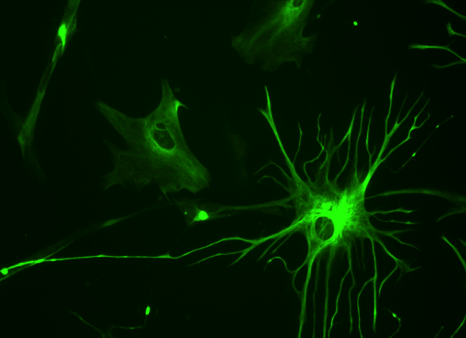 23 week human culture astrocyte stained for GFAP